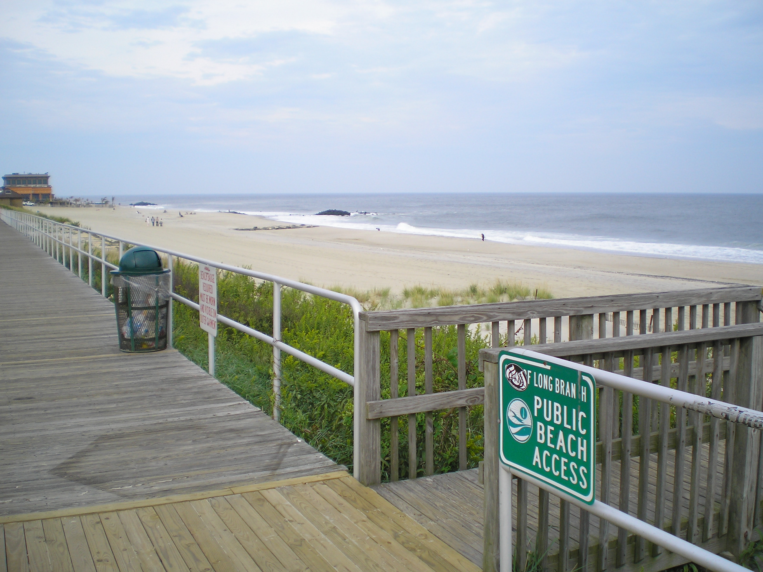 Long Branch, New Jersey Beach by David Shankbone, New York City